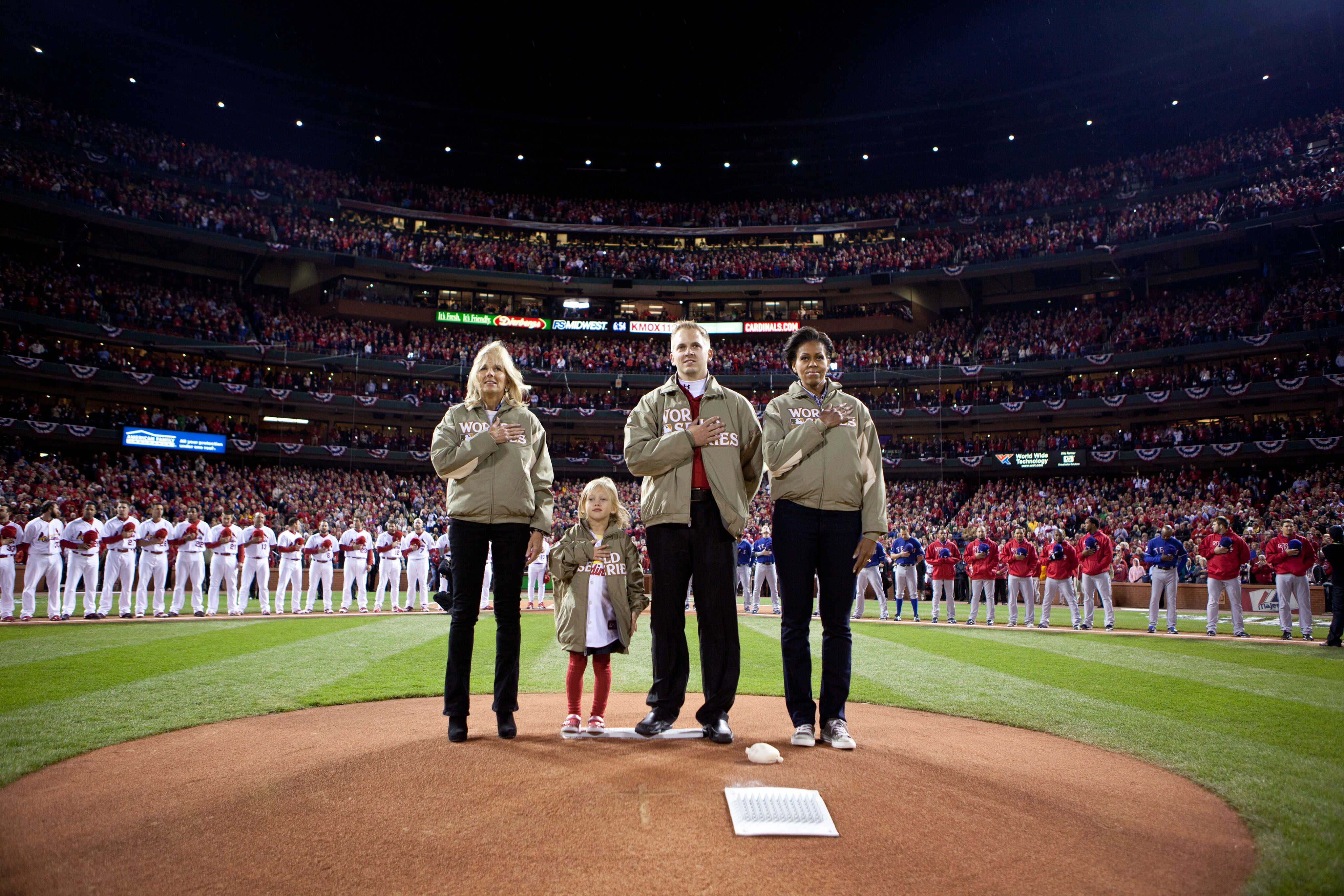 First Lady Michelle Obama and Dr. Jill Biden, with veteran James Sperry and his daughter, Hannah, pause for the national anthem prior to Game 1 of the World Series at Busch Stadium in St. Louis, Mo., Oct. 19, 2011. The First Lady and Dr. Biden attended the game as part of their Joining Forces initiative. (Official White House Photo by Lawrence Jackson)